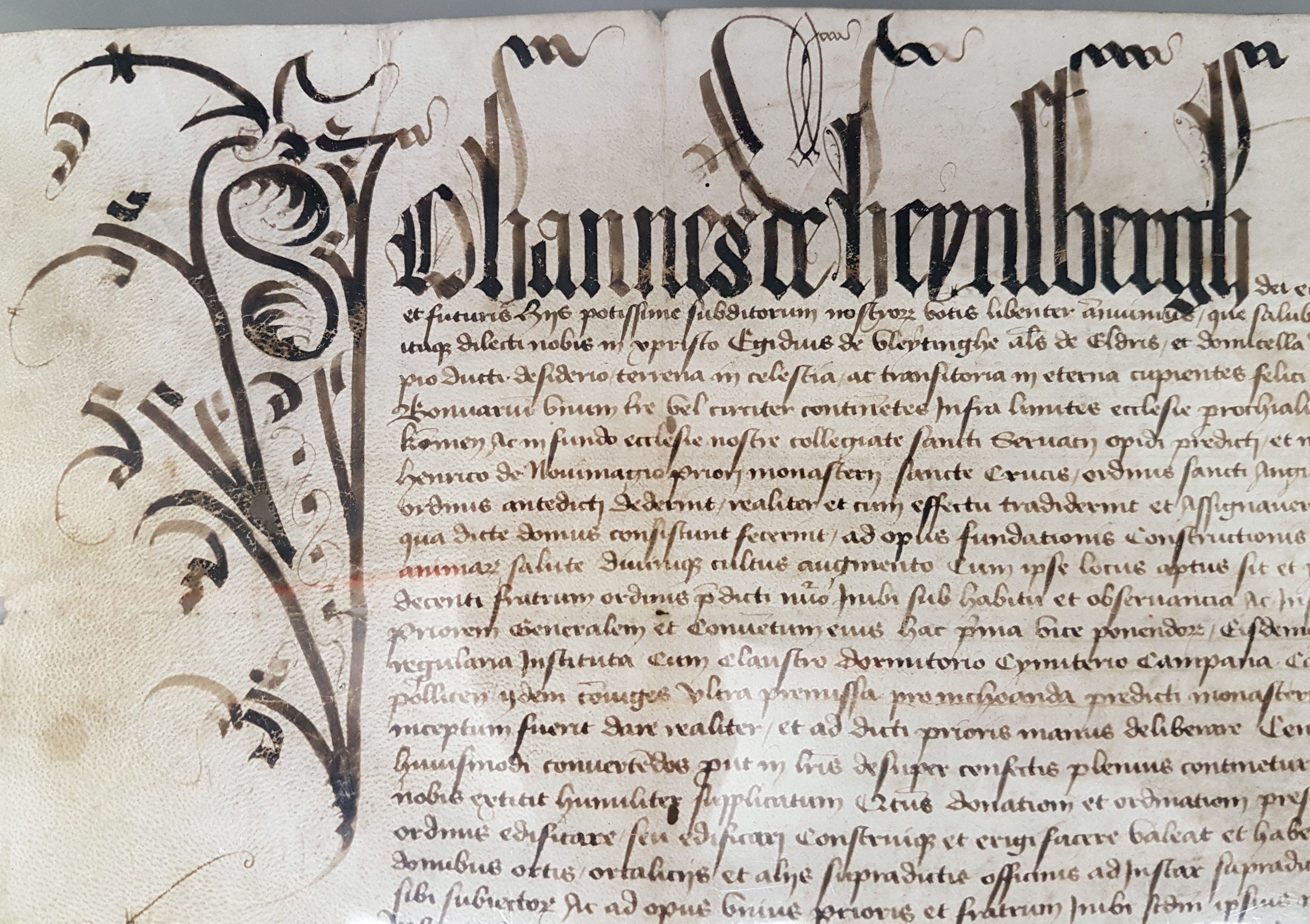 Detail of a document in the Kruisherenarchief, the archives of the former Monastery of the Croziers or Crutched Friars (1438-1796) in Maastricht, the Netherlands. The Kruisherenarchief has been part of the National Archives in Limburg (now: RHCL) in Maastricht since 1882. Although not the most important, it is considered the most complete monastery archives in the Netherlands, Belgium and the German Rhineland. Here: one of the oldest documents relating to the monastery, packed acid-free in Melinex (archival polyester sheets). The document of 4 January 1438 concerns the permission given by the bishop of Liège, John of Heinsberg (here in Latin: Johannes de Heynsbergh), to the Order of the Holy Cross to establish their Maastricht monastery.